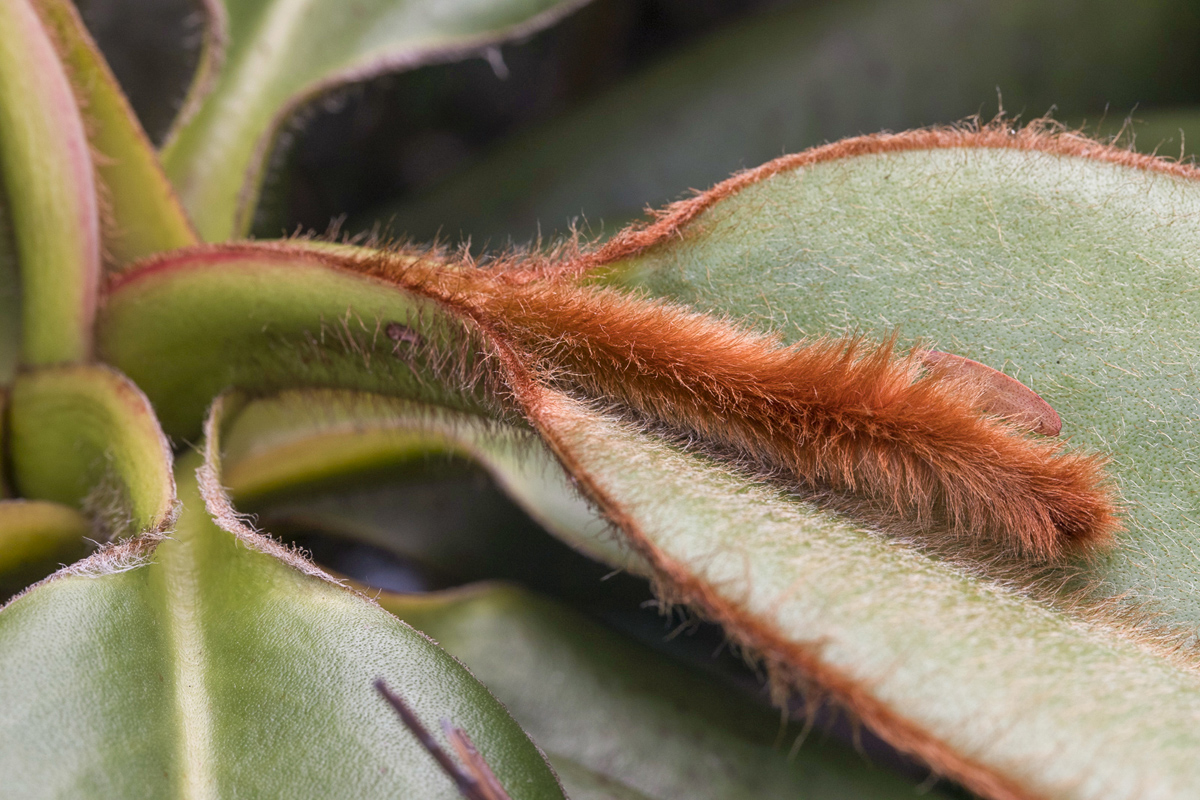 Nepenthes erucoides hairy new growth photographed in bonsai forest at the type locality by Royal Botanic Gardens Victoria (Melbourne, Australia) botanist Dr Alastair Robinson in June 2018